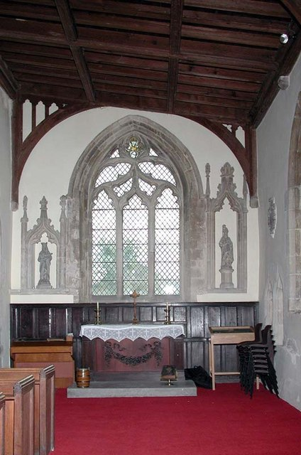 St Swithun, Merton, Oxon - Sanctuary